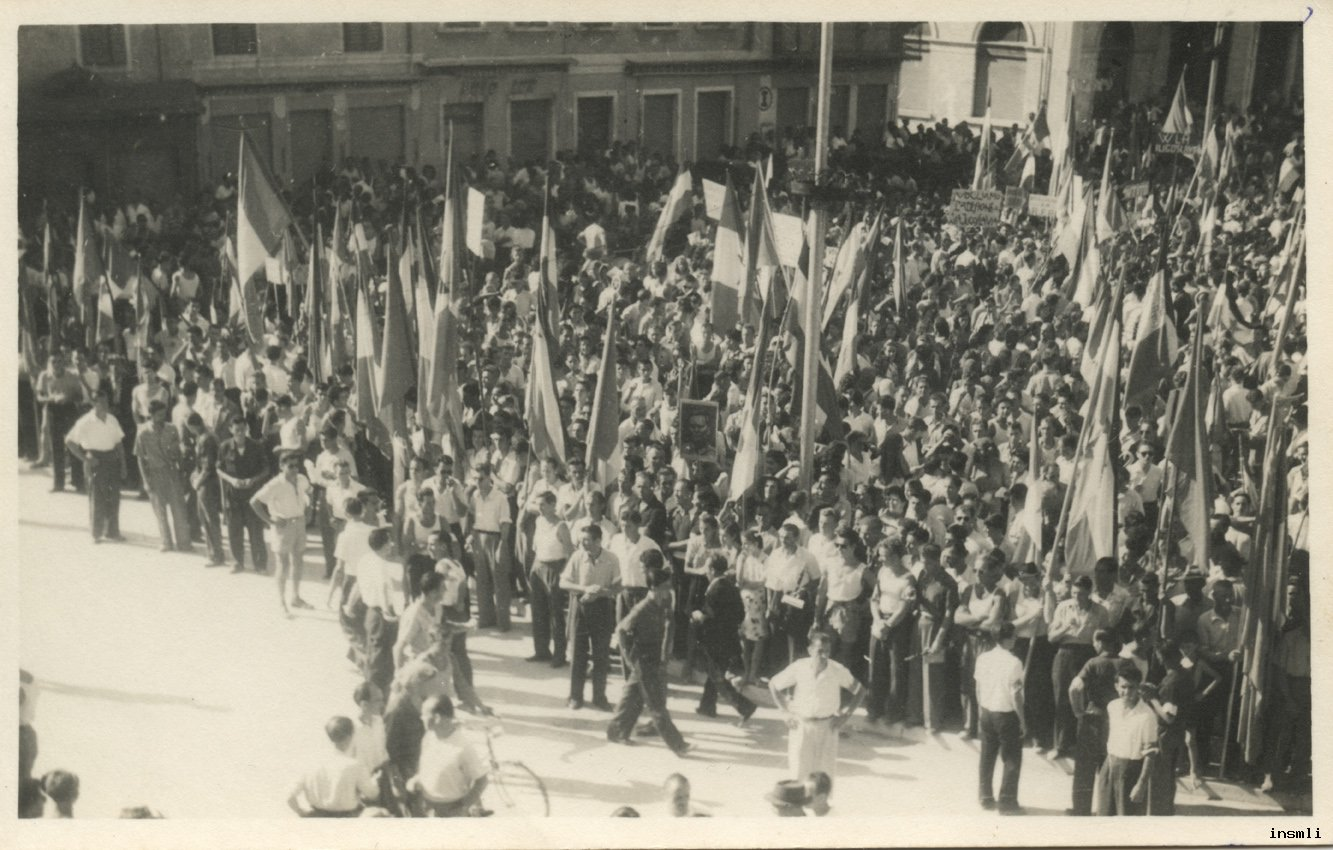 Pro-Yugoslav rally in Monfalcone, august 11, 1946